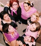 Image of Pretty Porky & Pissed Off